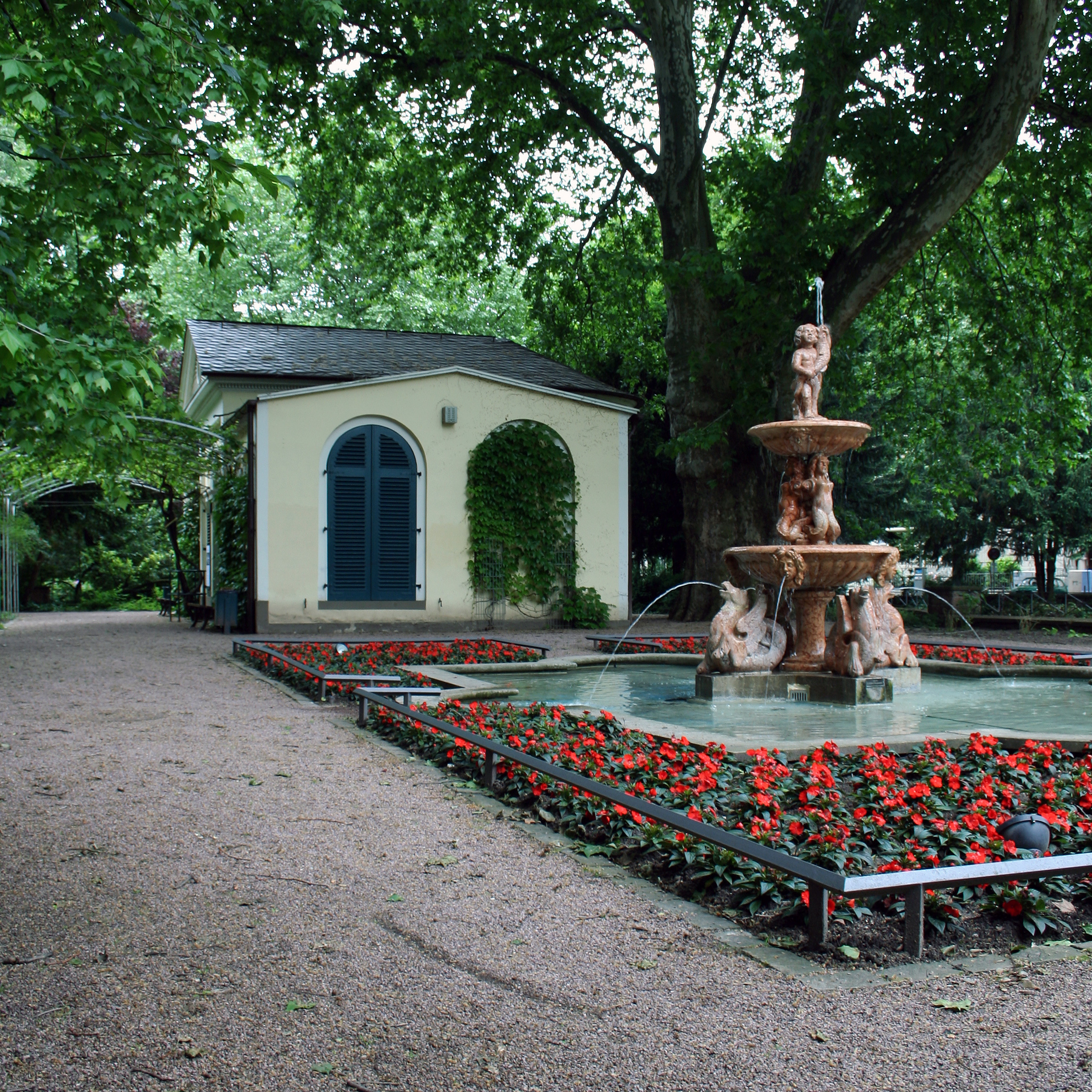 Nebbiensches Gartenhaus, summer house of Marcus Johannes Nebbien in the Bockenheimer Anlage (a former defensive wall construction), built 1810, side